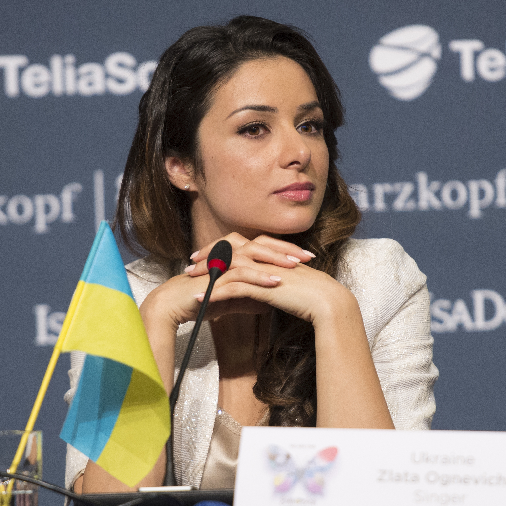 Zlata Ognevich at a press conference during the Eurovision Song Contest 2013 Malmö. (Help translate this text)